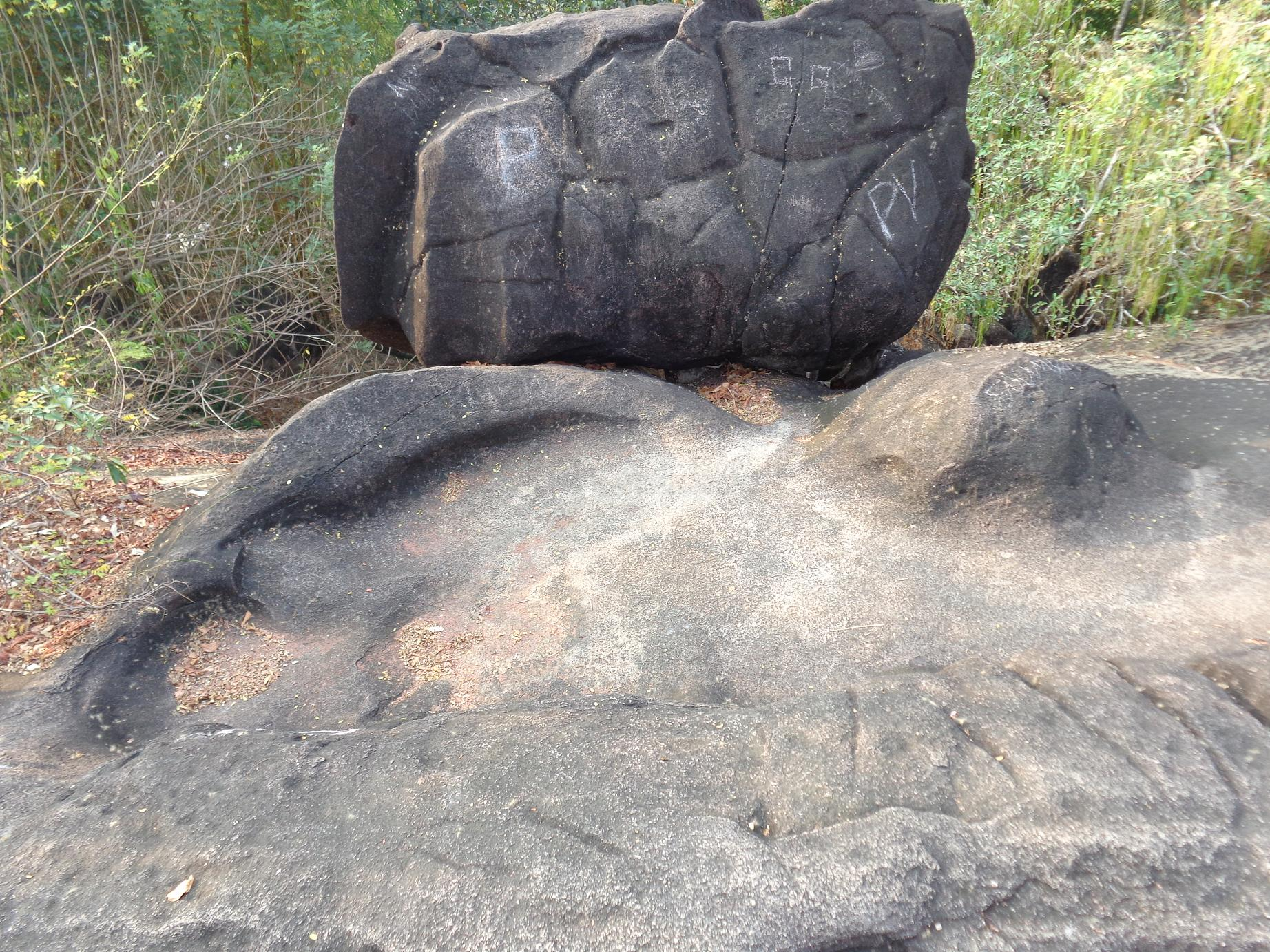 the rock having the footprint of bhima at pandavanpara